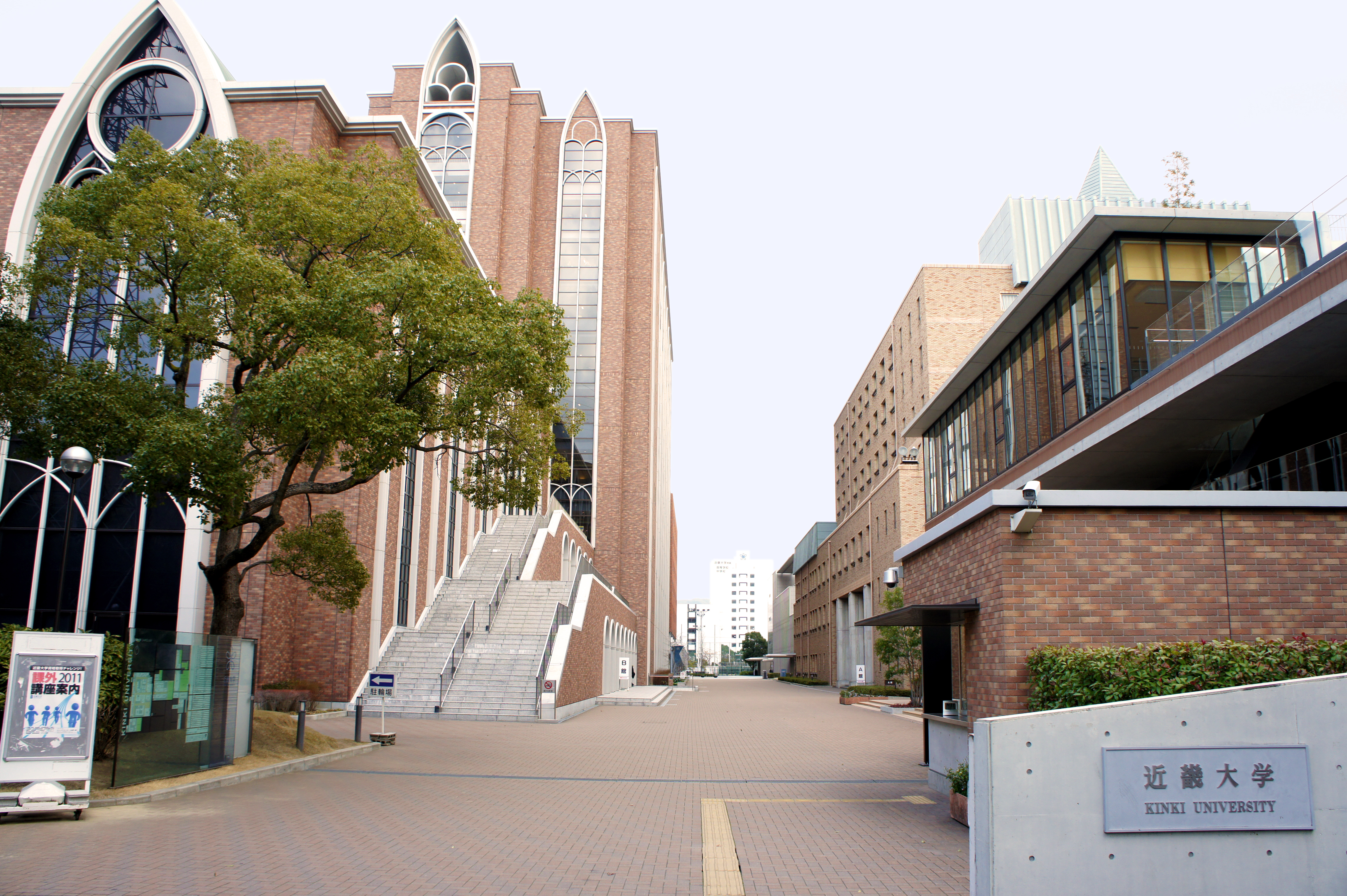 Kinki University, 3-4-1 Kowakae Higashiosaka-City Osaka JAPAN.